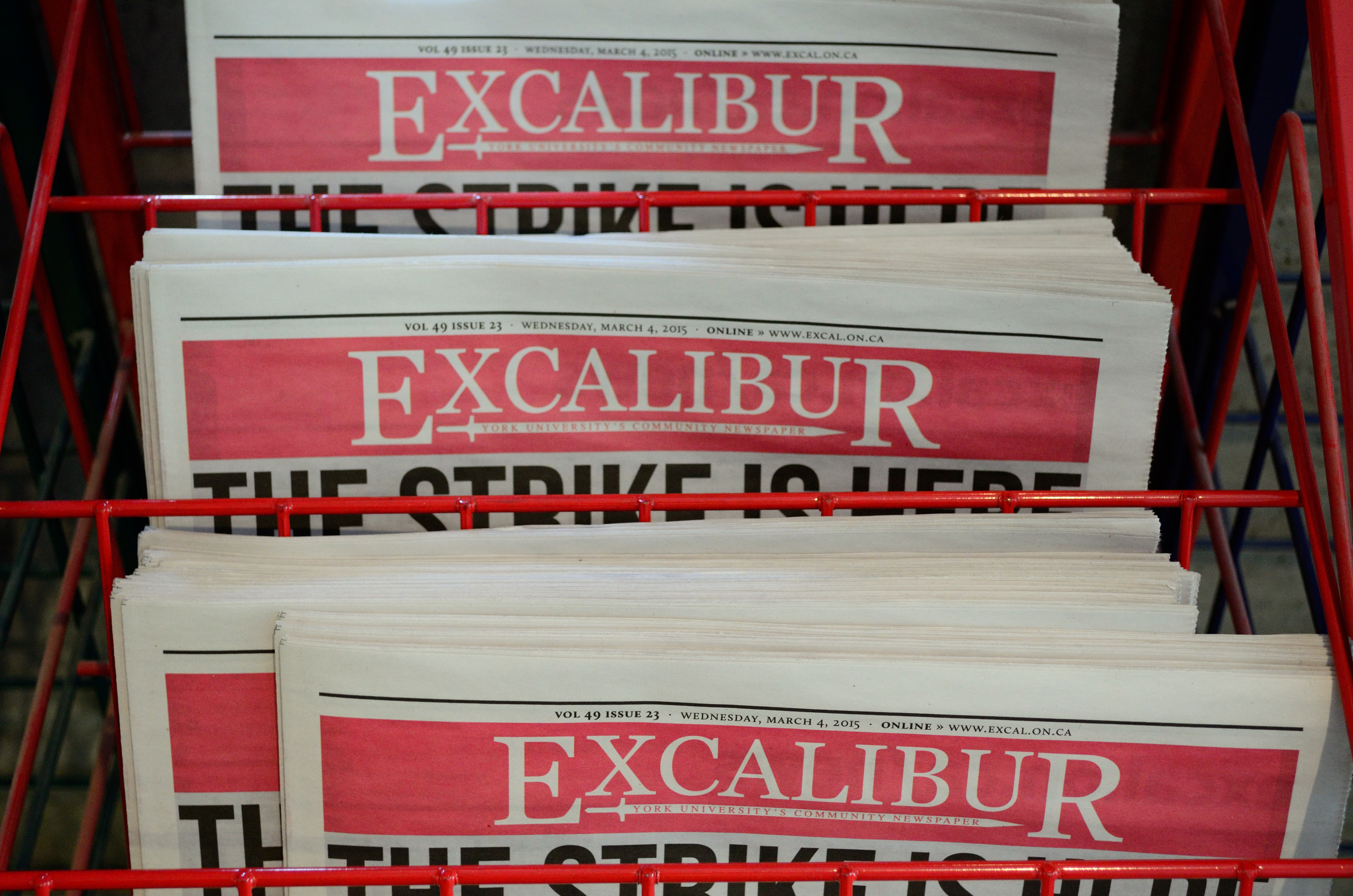 YorkU's Excalibur